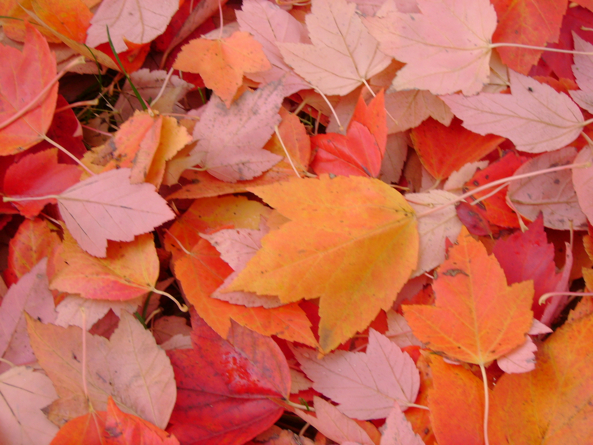 Fall leaves in Eugene, Oregon